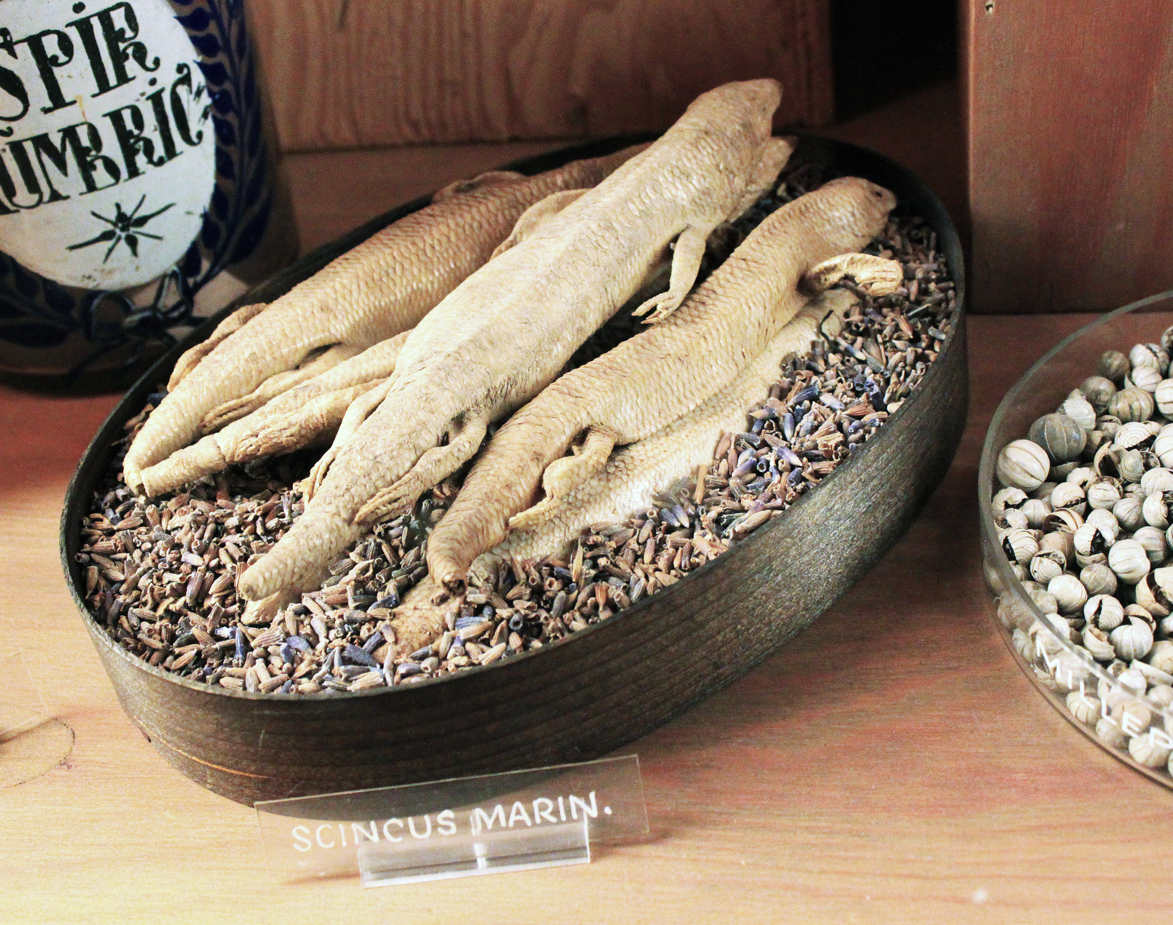 Dried scincus scincus at the German Pharmacy Museum in Heidelberg, Germany.